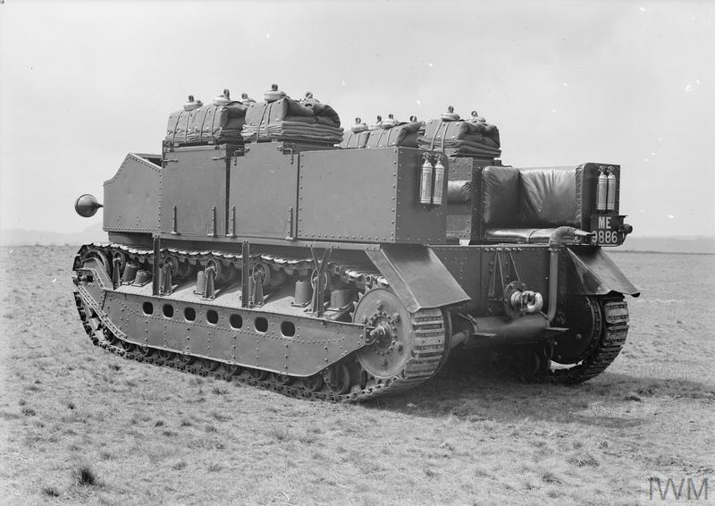 BRITISH MILITARY VEHICLES 1918-1939 Dragon, Medium Artillery Tractor Mk.II* of 10th Medium Battery, Royal Artillery.